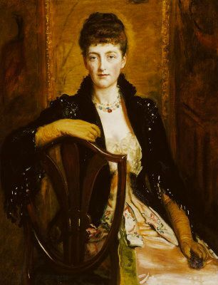 Portrait of Alice Stuart-Wortley by Sir John Everett Millais(8 June 1829 – 13 August 1896), reproduced at Wolfie Wolgang.